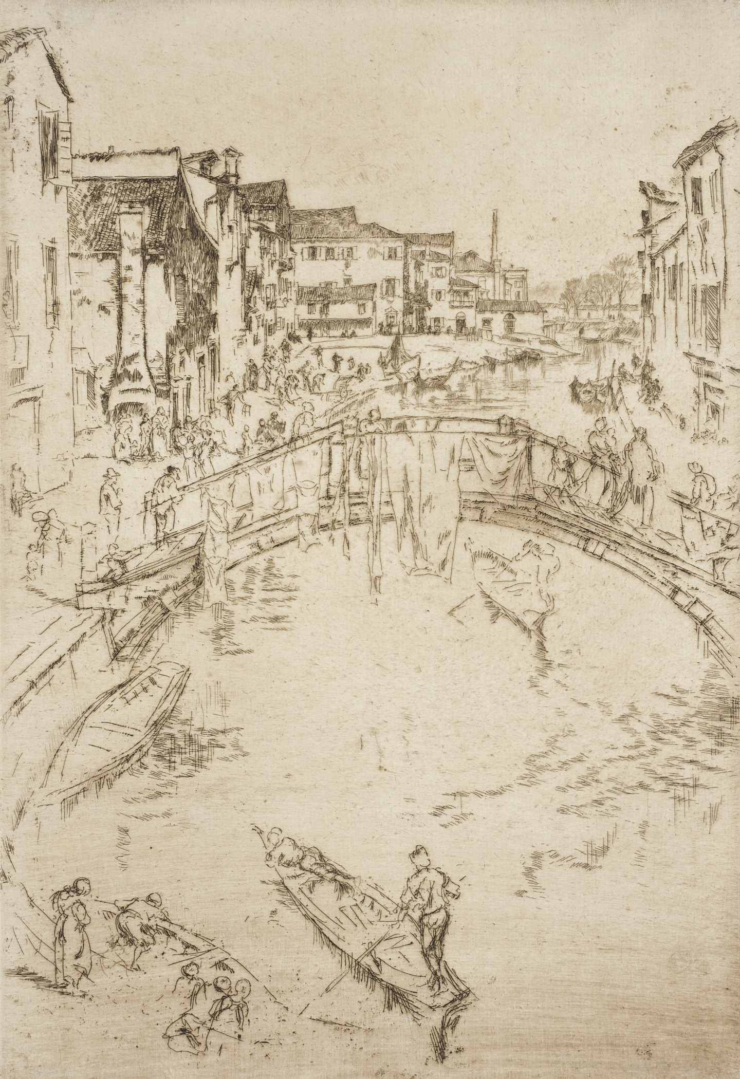 United States, 1879-1880 Series: Second Venice Set Prints; etchings Etching Image and sheet: 11 1/2 x 7 7/8 in. (29.21 x 20 cm) The Julius L. and Anita Zelman Collection (M.84.279.36) Prints and Drawings